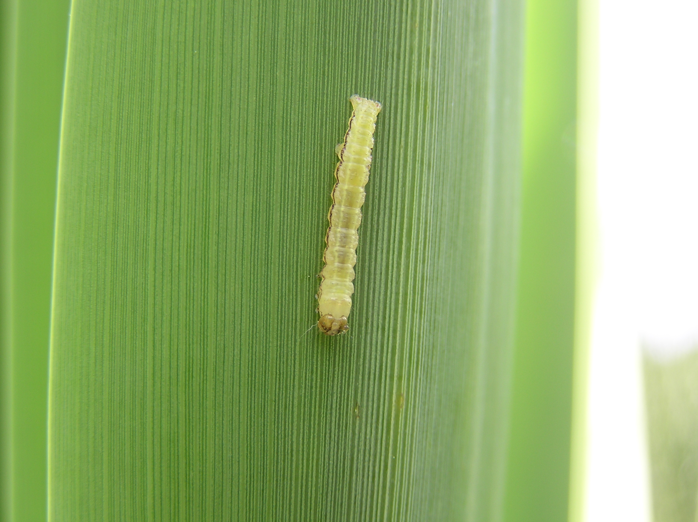 Cabbage Tree Moth caterpillar, Campbell St to Wrights Hill track, Karori, Wellington, New Zealand.